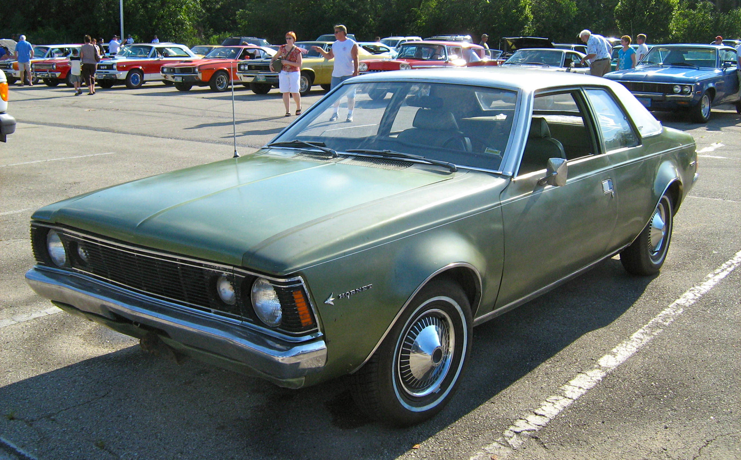 Front view of 1970 AMC Hornet SST made by American Motors Corporation. This two-door sedan is finished in two-tone: green with white accented roof. Equipped with AMC's 304 CID (5.0 L) V8 engine. Photographed in Kenosha, Wisconsin.